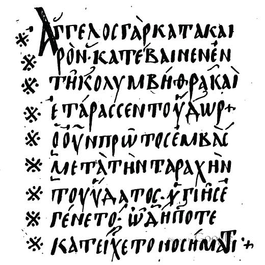 facsimile with text of the Gospel of John 5:4